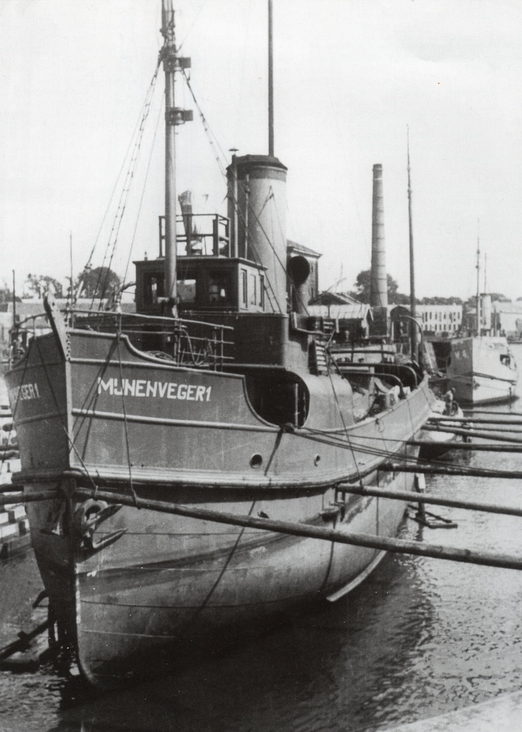 Dutch M-class Minesweeper M 1 in a dock with M 4 at the background